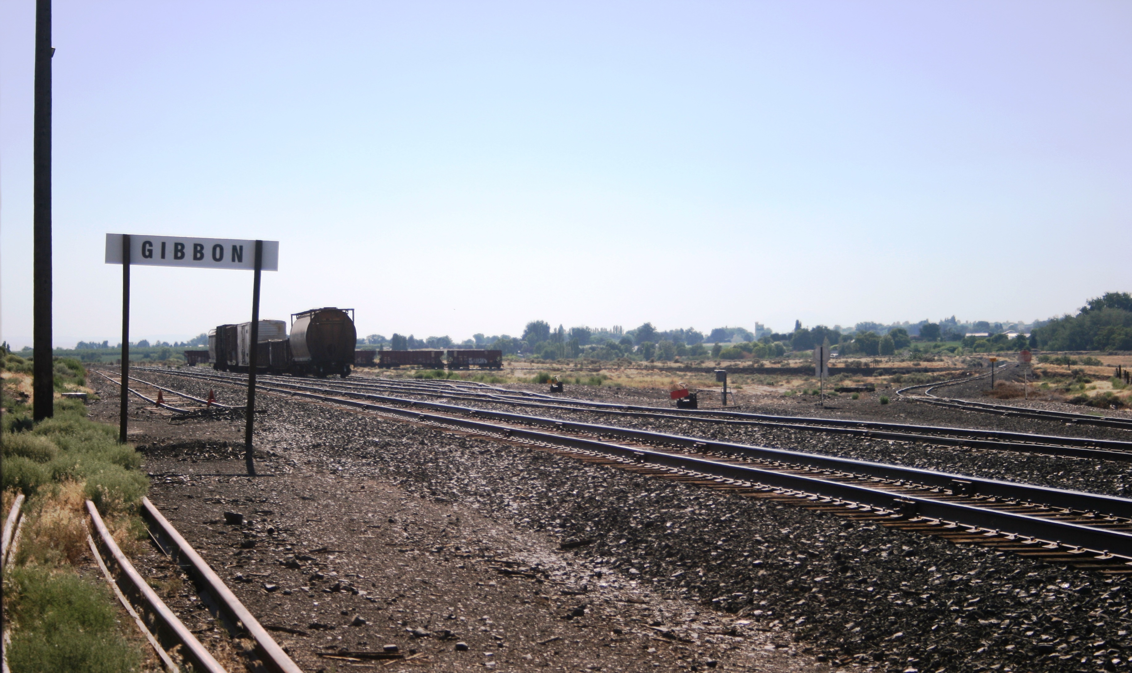 Gibbon is an unincorporated community in Benton County, Washington, United States, between Prosser and Benton City. The community, primarily a railroad junction, was founded by the Northern Pacific Railway Company in 1884. View looking west toward Prosser.